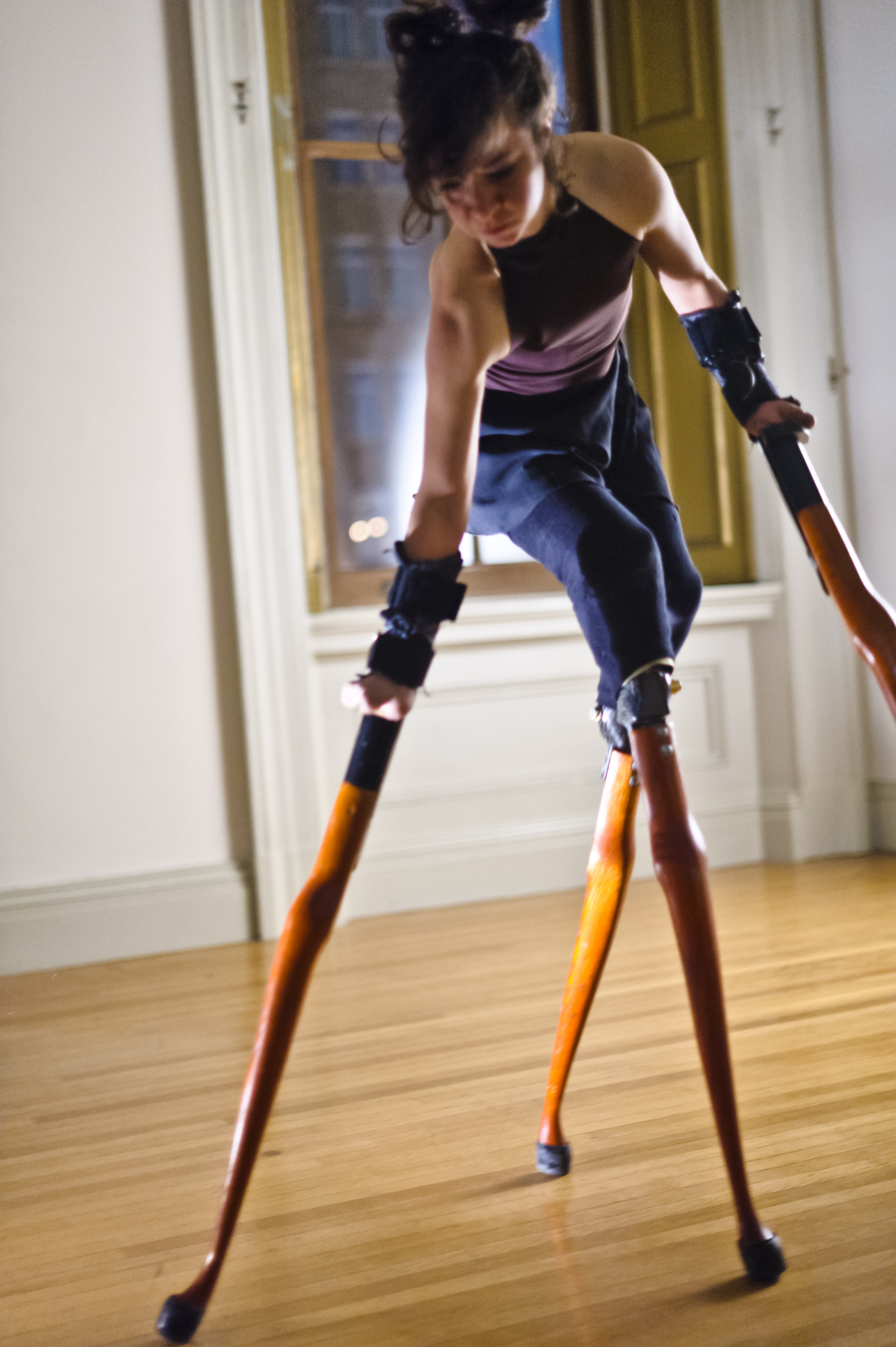 Multiple amputee Lisa Bufano performing on her signature orange Queen Anne Table legs at All Worlds Fair 2013.